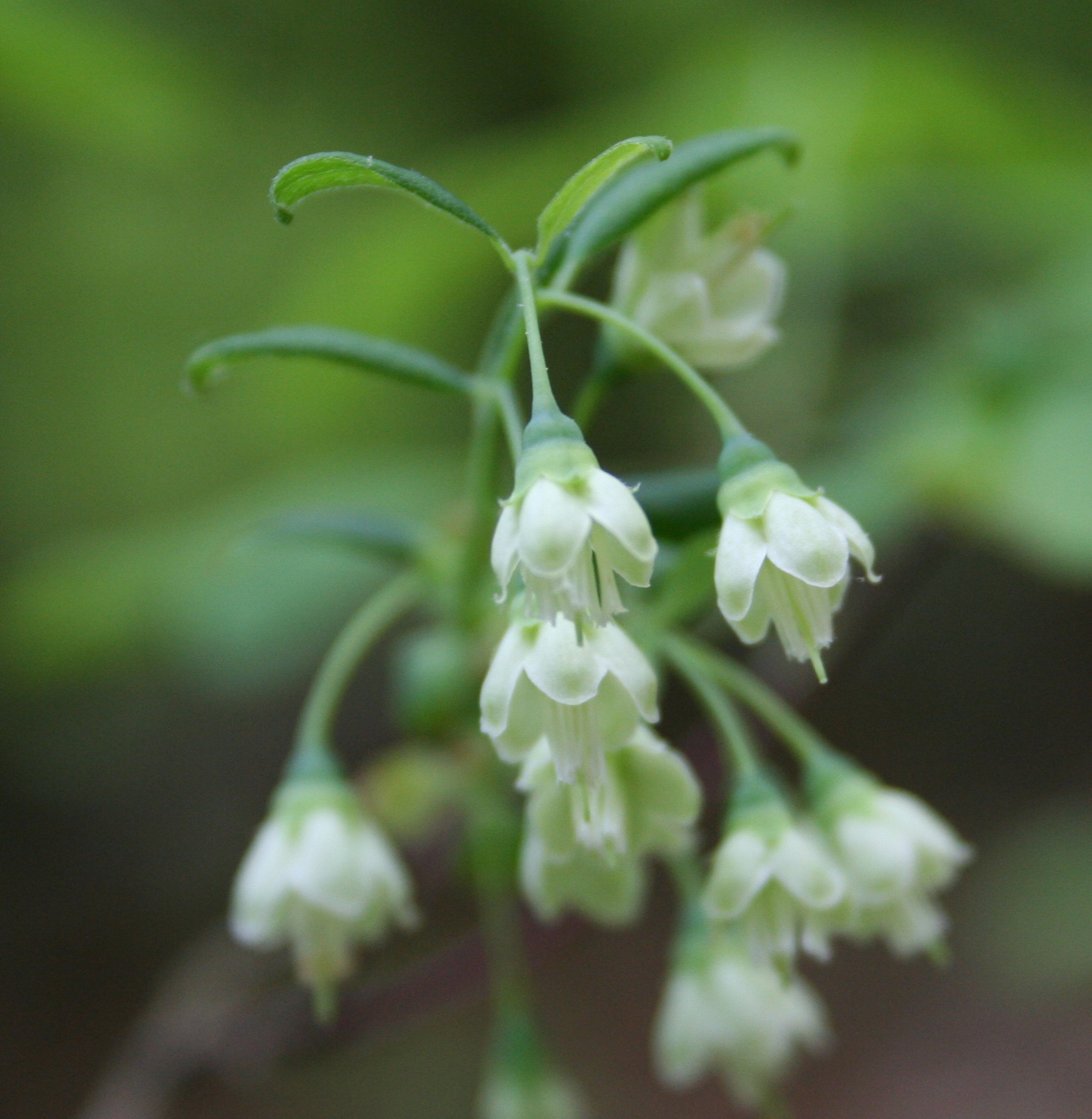 Flowers ofVaccinium stamineum on a mesic wooded ridge in Williamsburg, Virginia